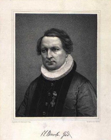 Peter Christian Stenersen Gad (1797-1851), Danish bishop